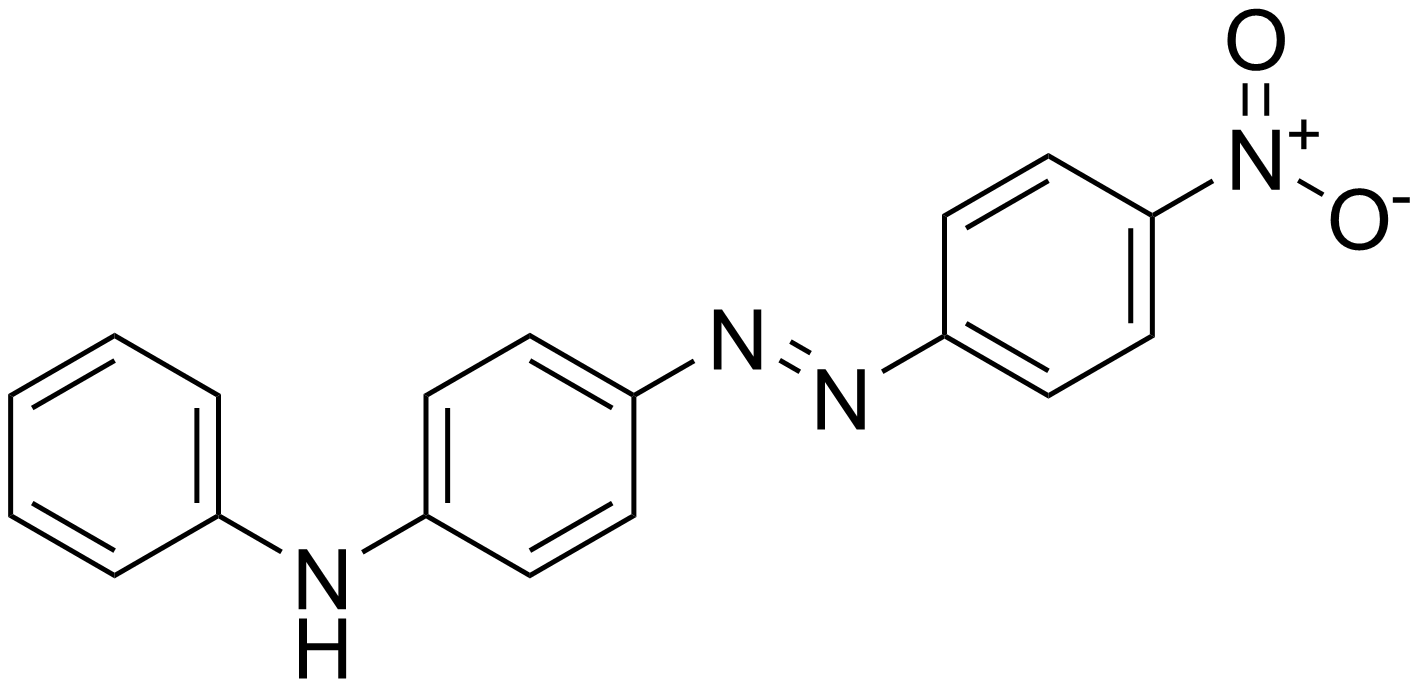 Structure of Disperse Orange 1 made by myself in BKCHEM.